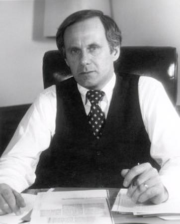 Former U.S. Senator Gordon J. Humphrey.